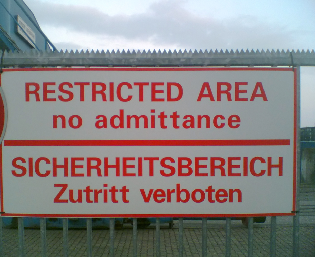 ISPS code being applied in Kiel with signs prohibiting access to areas next to ships.